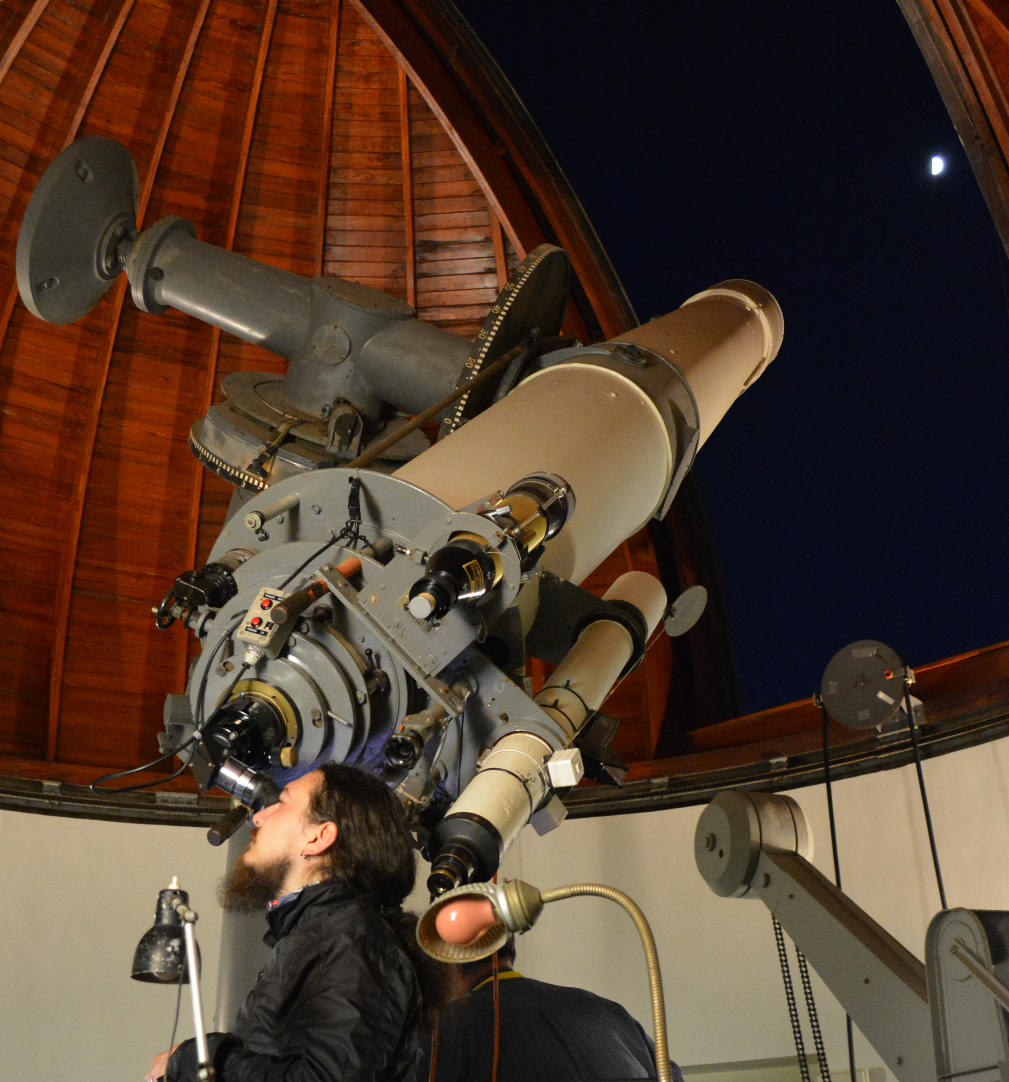 Vatican Observatory Zeiss Visual Refractor Telescope in Castel Gondolfo.